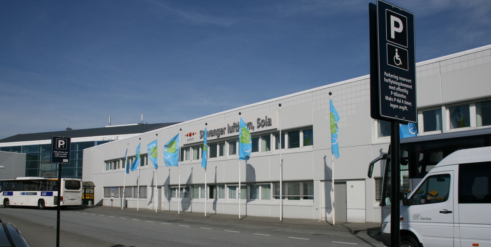 Stavanger Airport, Sola Norsk (bokmål): Sola lufthavn